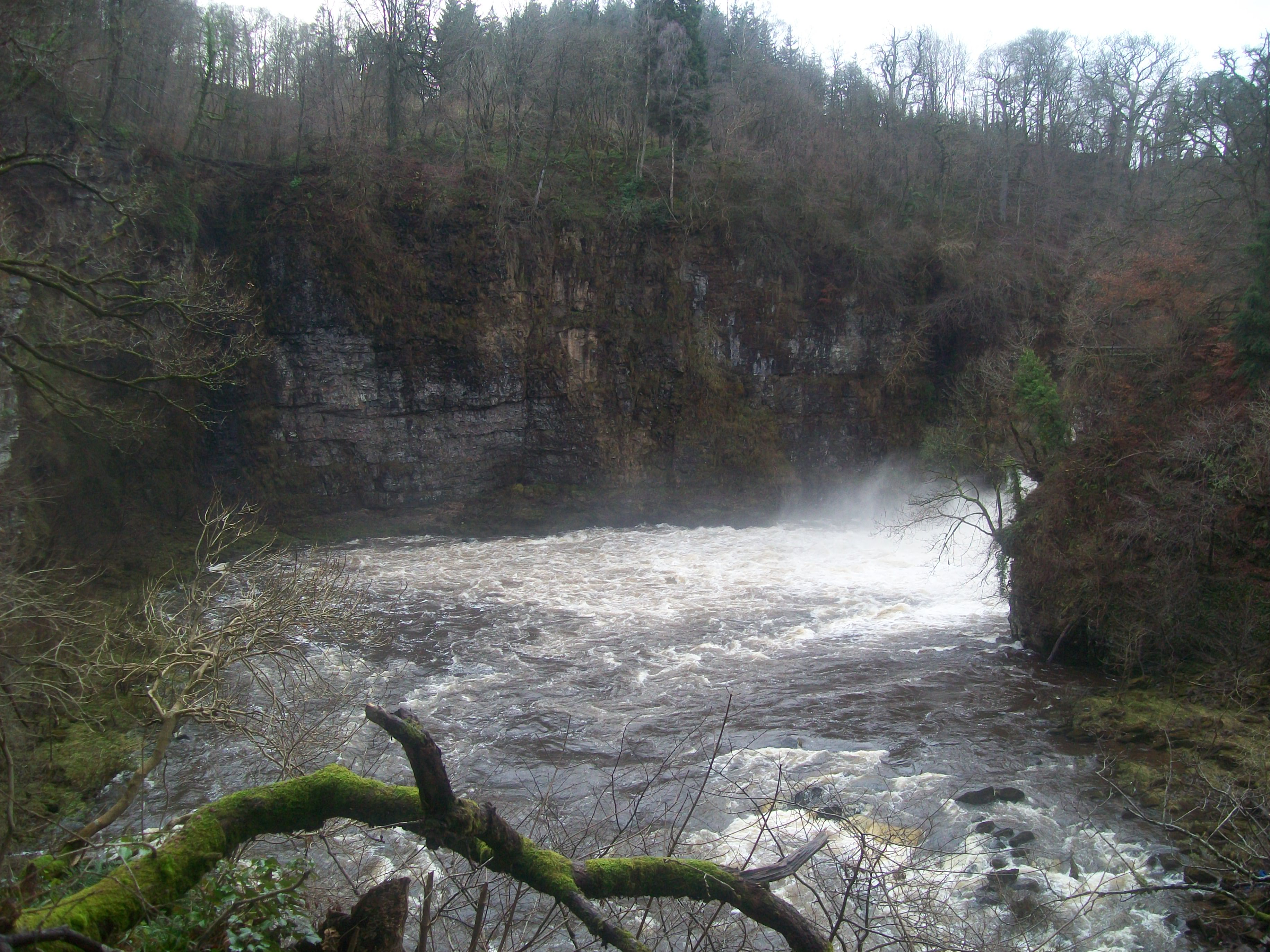 Natural Amphitheatre at the base of Corra Linn, Falls of Clyde, 4 December 2011